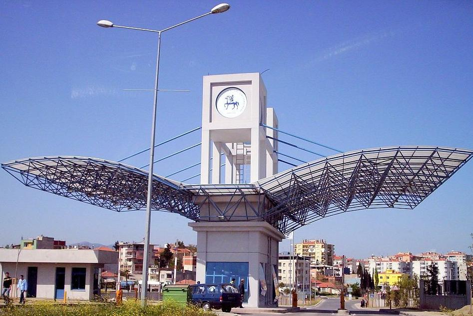 Entry pavilion — Dokuz Eylul University campus, Izmir, Turkey